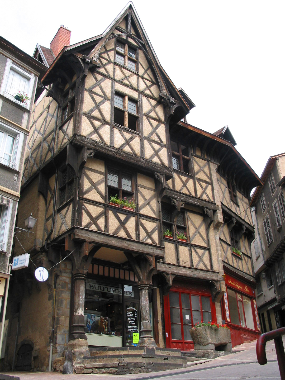 Thiers (Puy-de-Dôme) (France), Place du Pirou - the Hotel du Pirou - House timbered (XVth century).